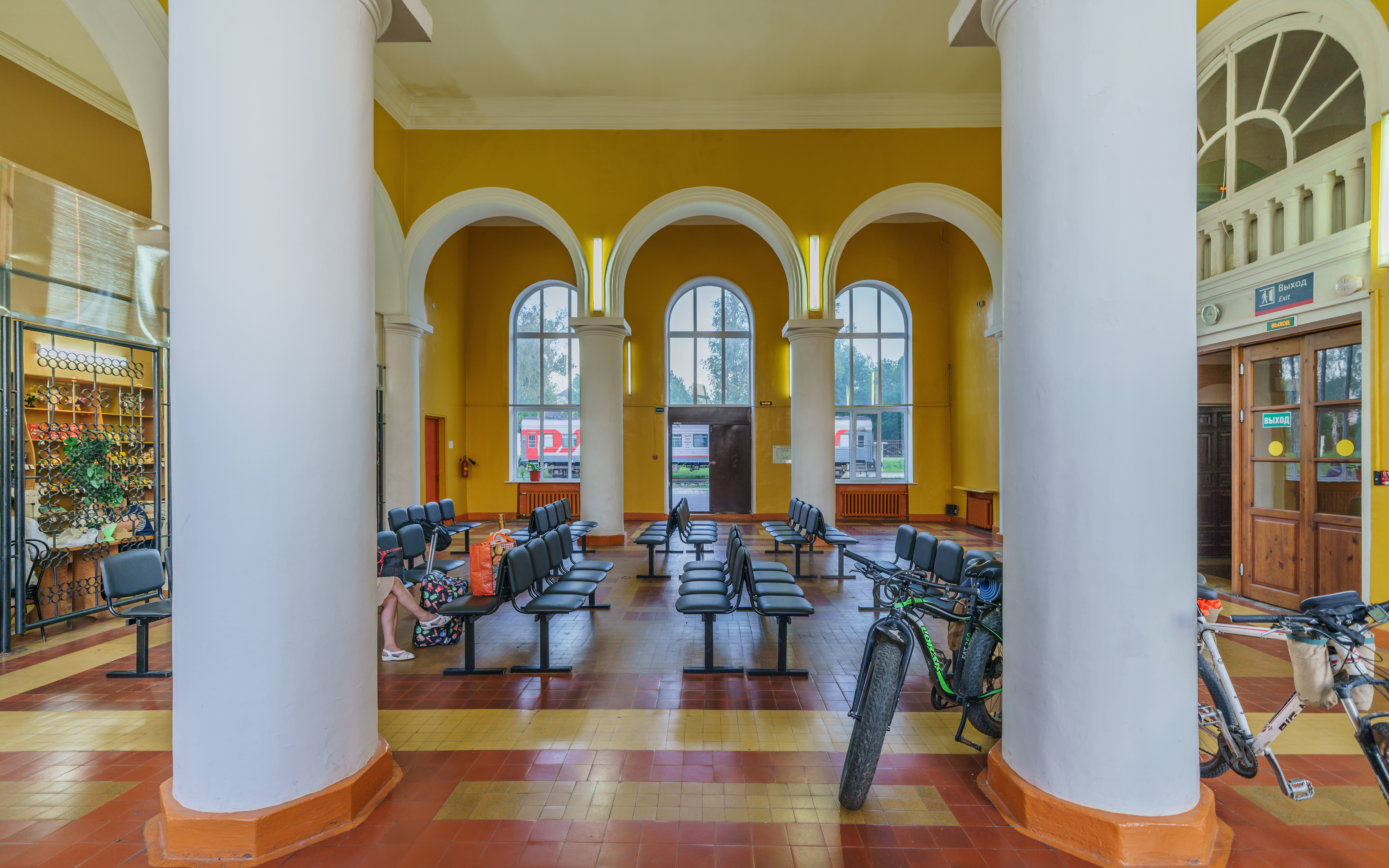 Railway station in Dno, Pskov Oblast, Russia.